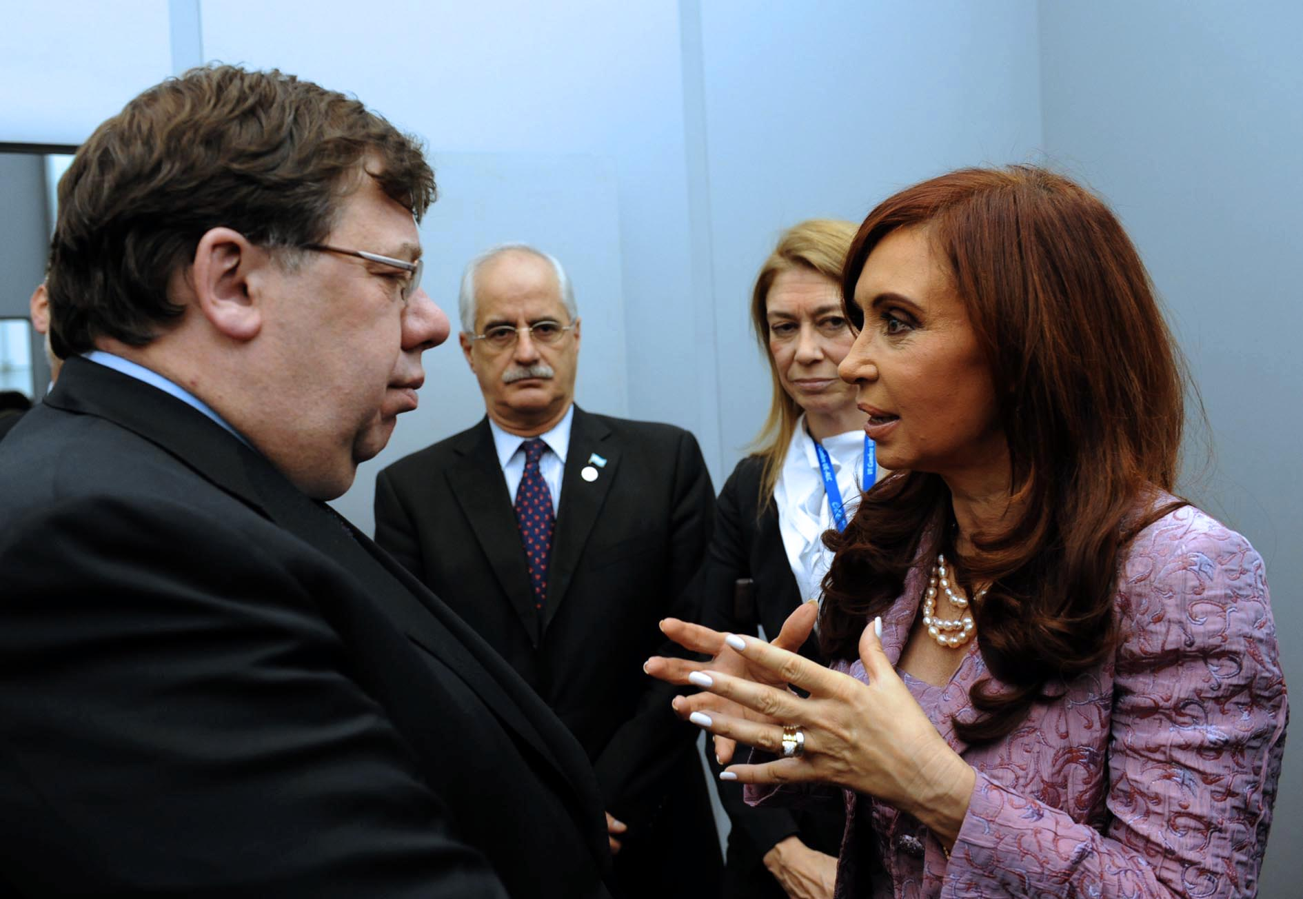 Argentine President Cristina Fernandez with Ireland PM Brian Cowen